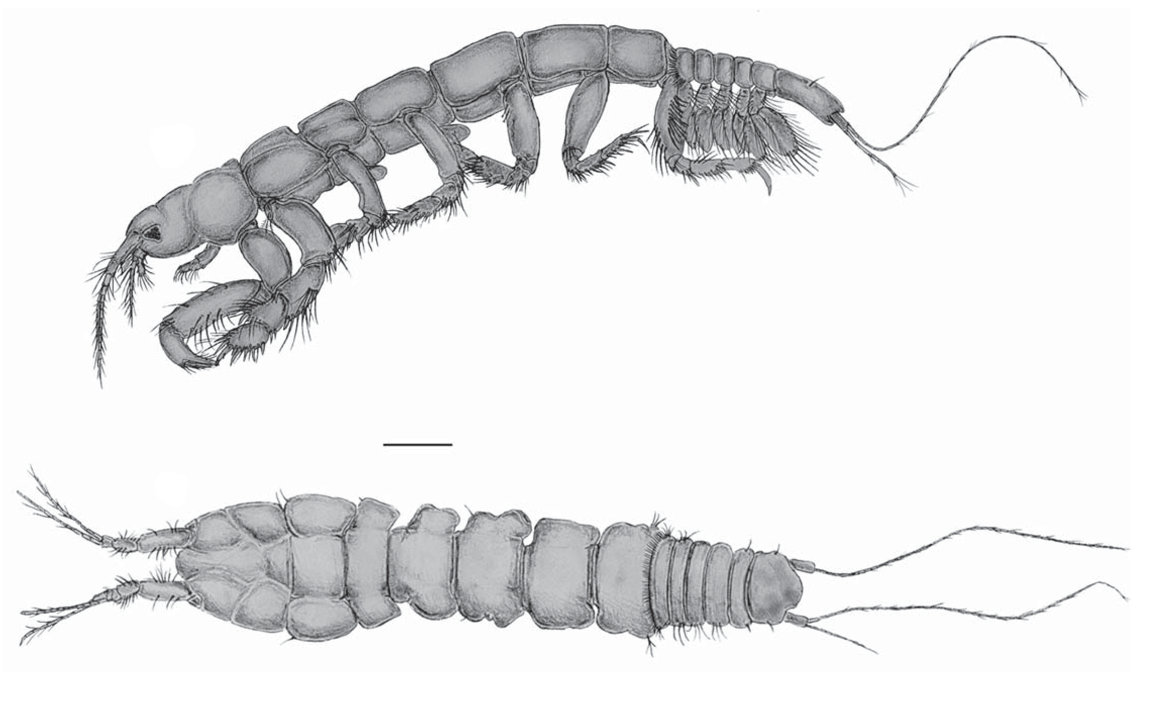 Drawing of holotype female of Longiflagrum amphibium. Upper image is lateral view. Lower image is dorsal view. Scale bar is 1 mm.